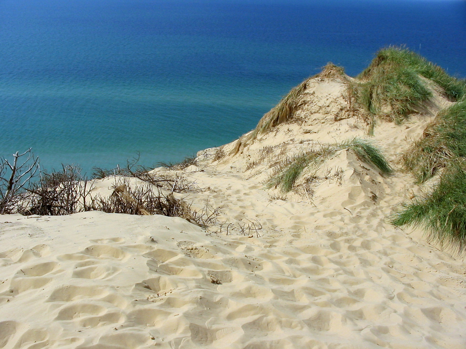 Sandy cliff beach at the North Sea, Vendsyssel, Denmark